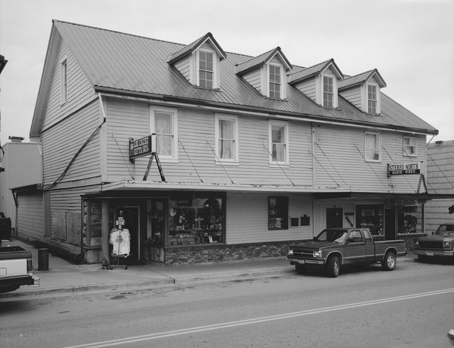 Russian-American Company, Building No. 29, 202-206 Lincoln Street, Sitka, Sitka Borough, AK